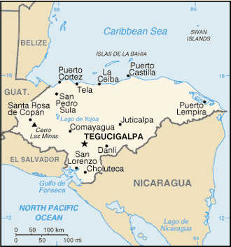 Map of Honduras showing major cities